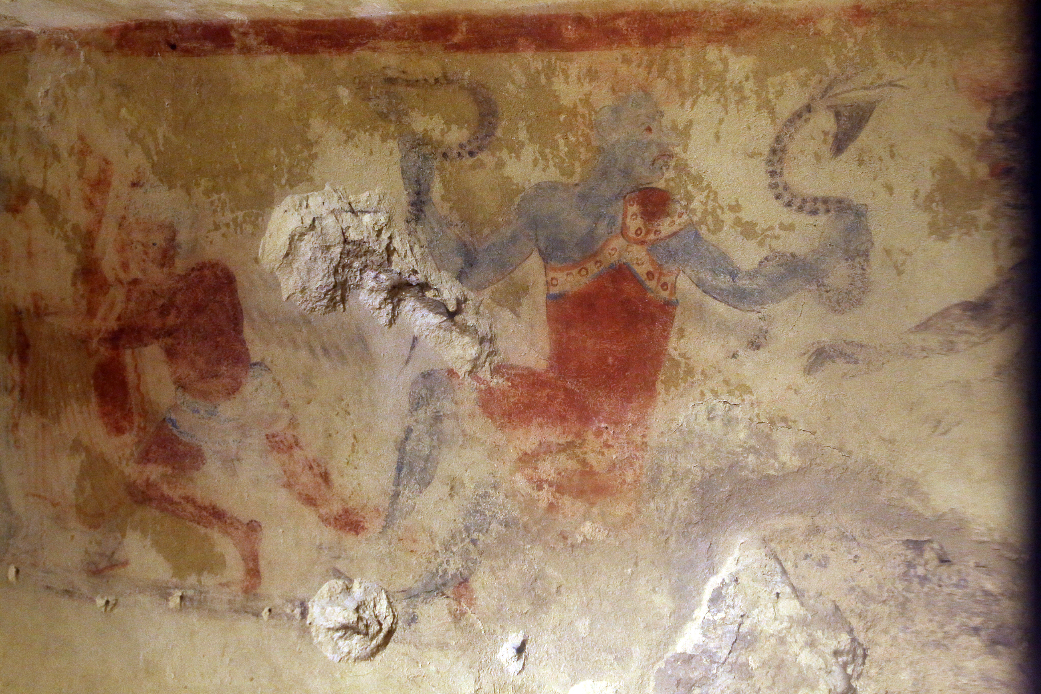 Necropoli dei Monterozzi (Tarquinia)